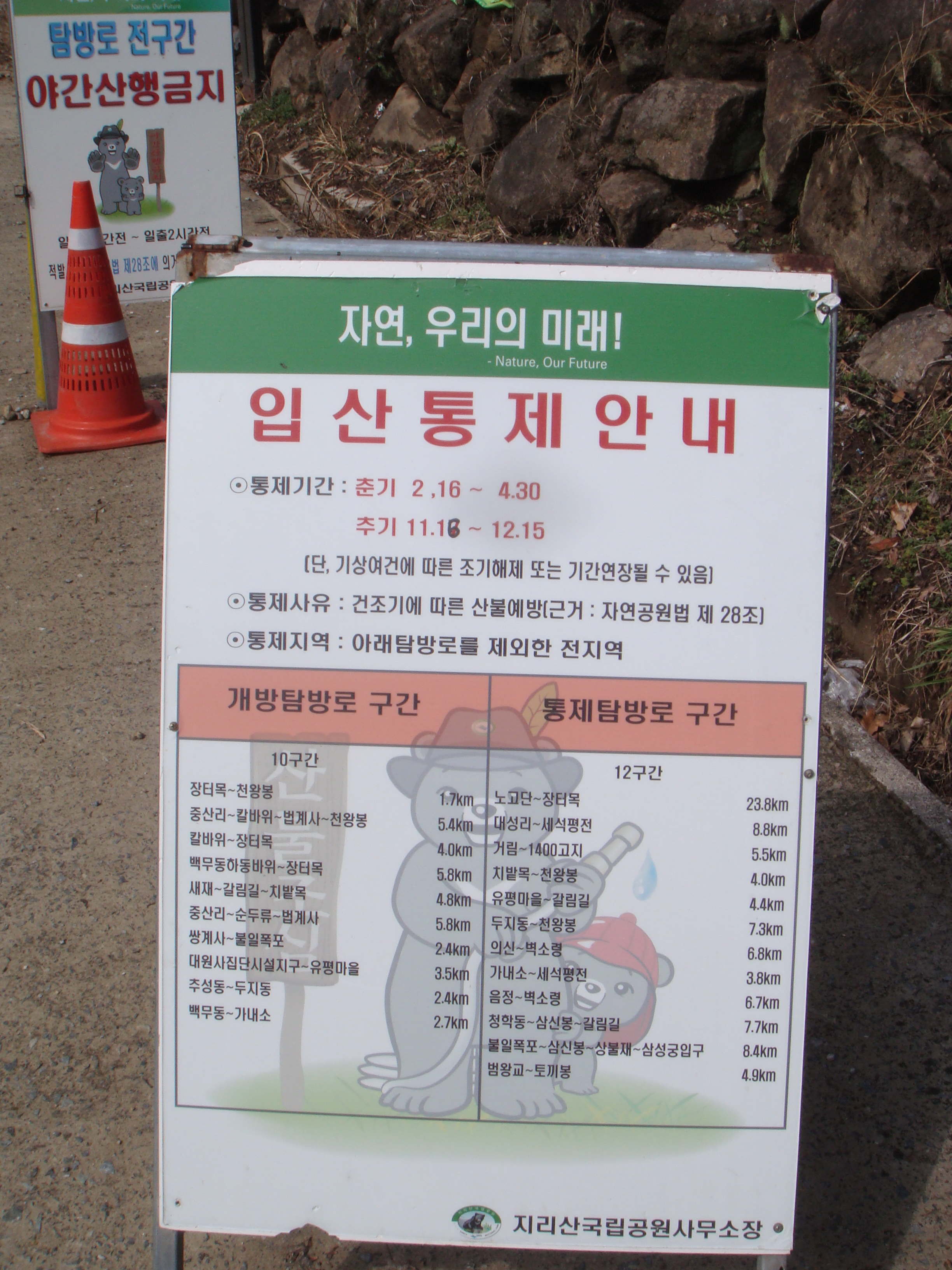 The information about hiking ban period for some routes